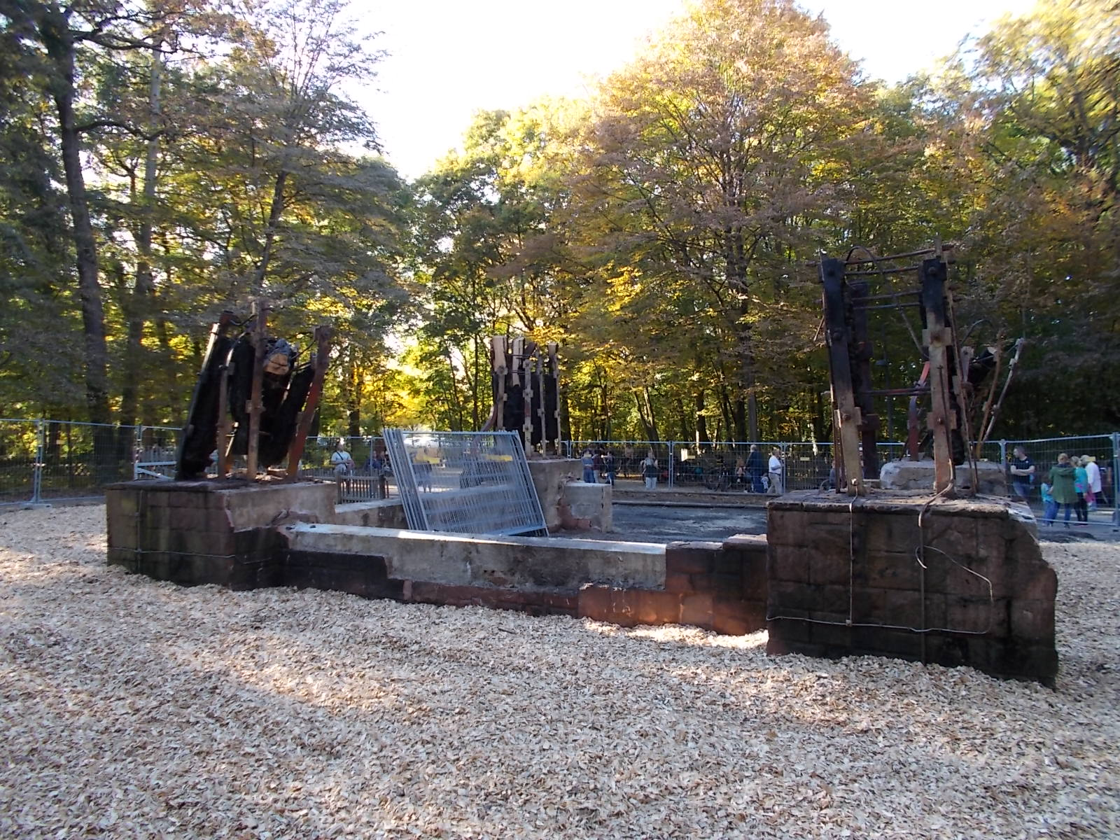 Photo of Goethe Tower after the fire of the 12th of October 2017, Frankfurt am Main, Germany.